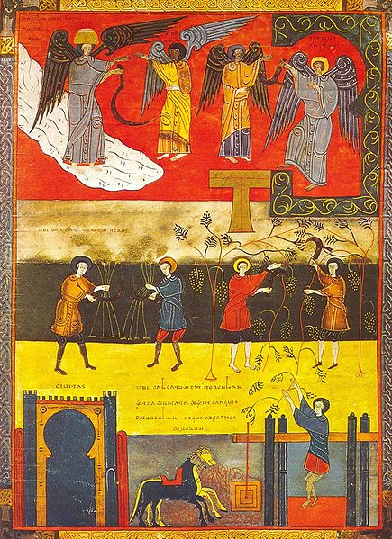 Beatus Facundus: Grain and Grape Harvest, 1047